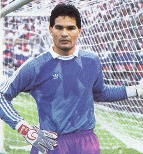 Goalkeeper José Luis Chilavert while playing for Argentine club San Lorenzo de Almagro